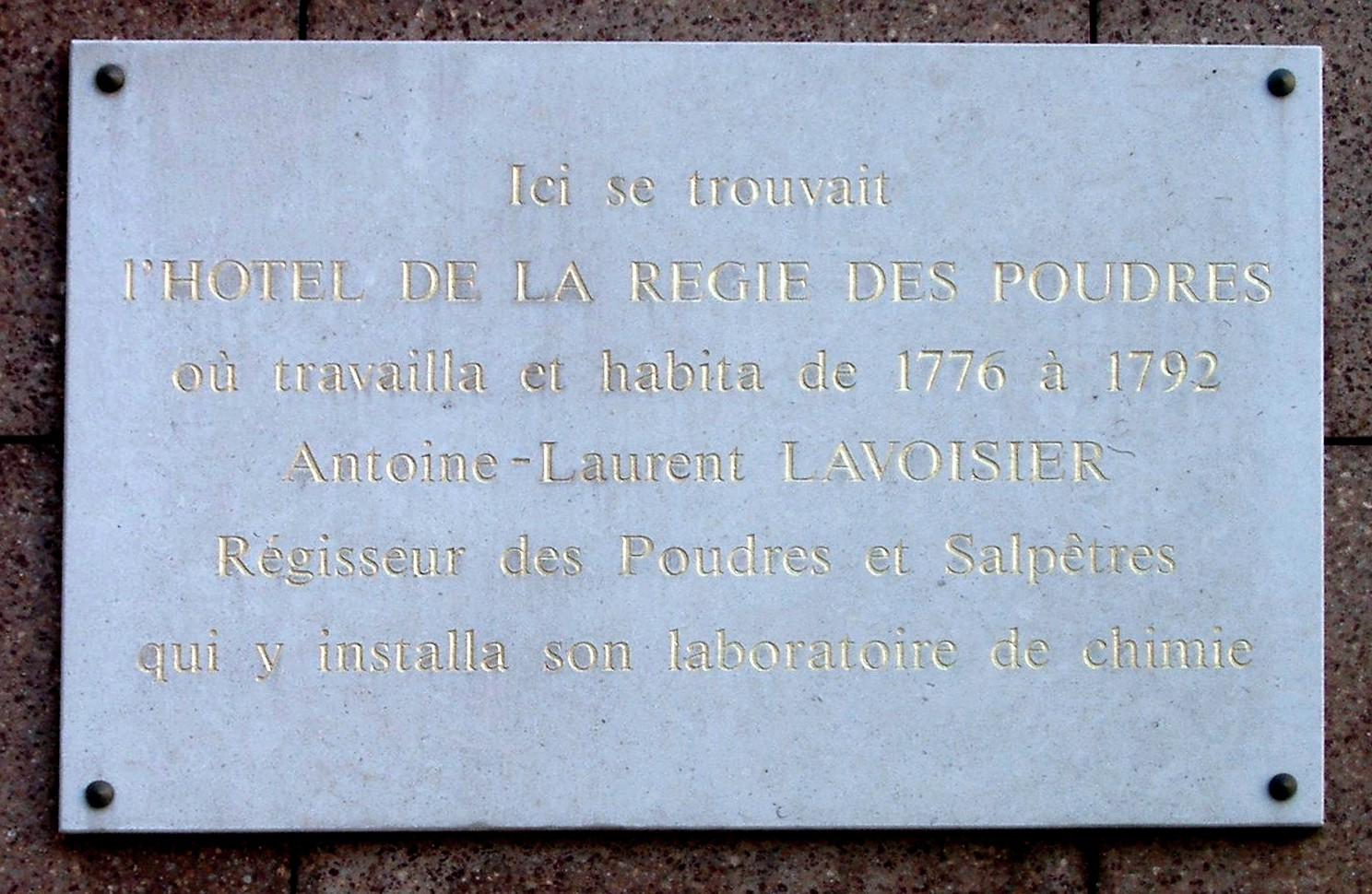 Plaque in memory of Antoine (de) Lavoisier: 1 rue Bassompierre, Paris 4th arrondissement